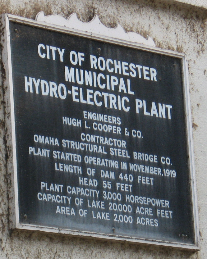 sign at the lake zumbro hydro electric dam Taken by user:mazzmn Oct 2006